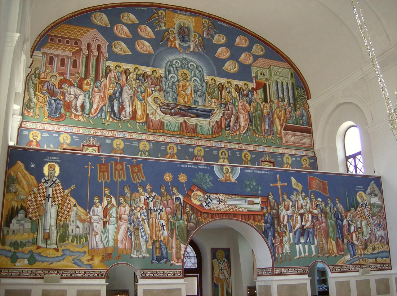 Trebinje